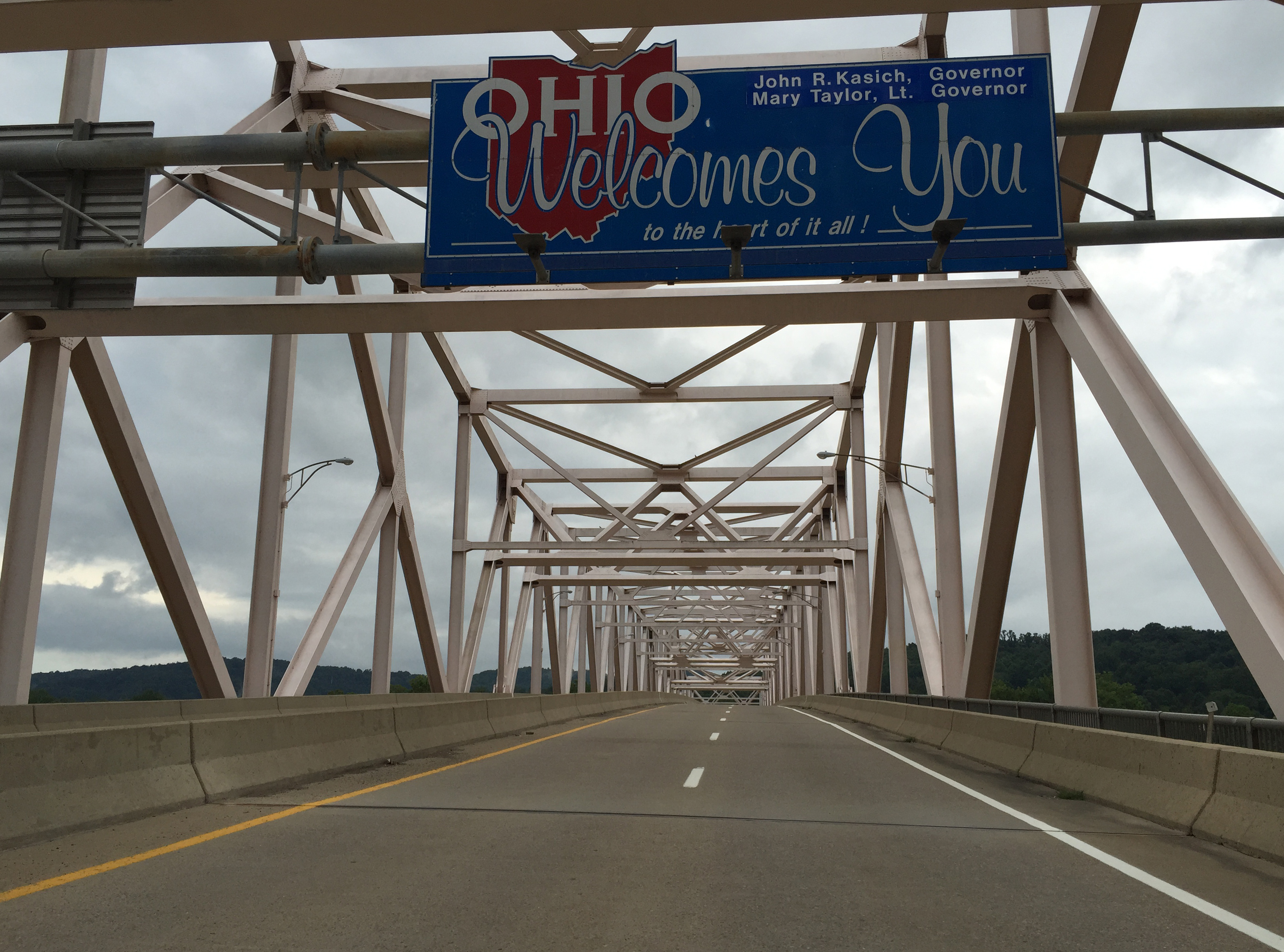 "Ohio Welcomes You" sign at the junction of West Virginia State Route 807 and Ohio State Route 807 (Hi Carpenter Memorial Bridge) crossing the Ohio River from Pleasants County, West Virginia to Newport Township, Washington County, Ohio